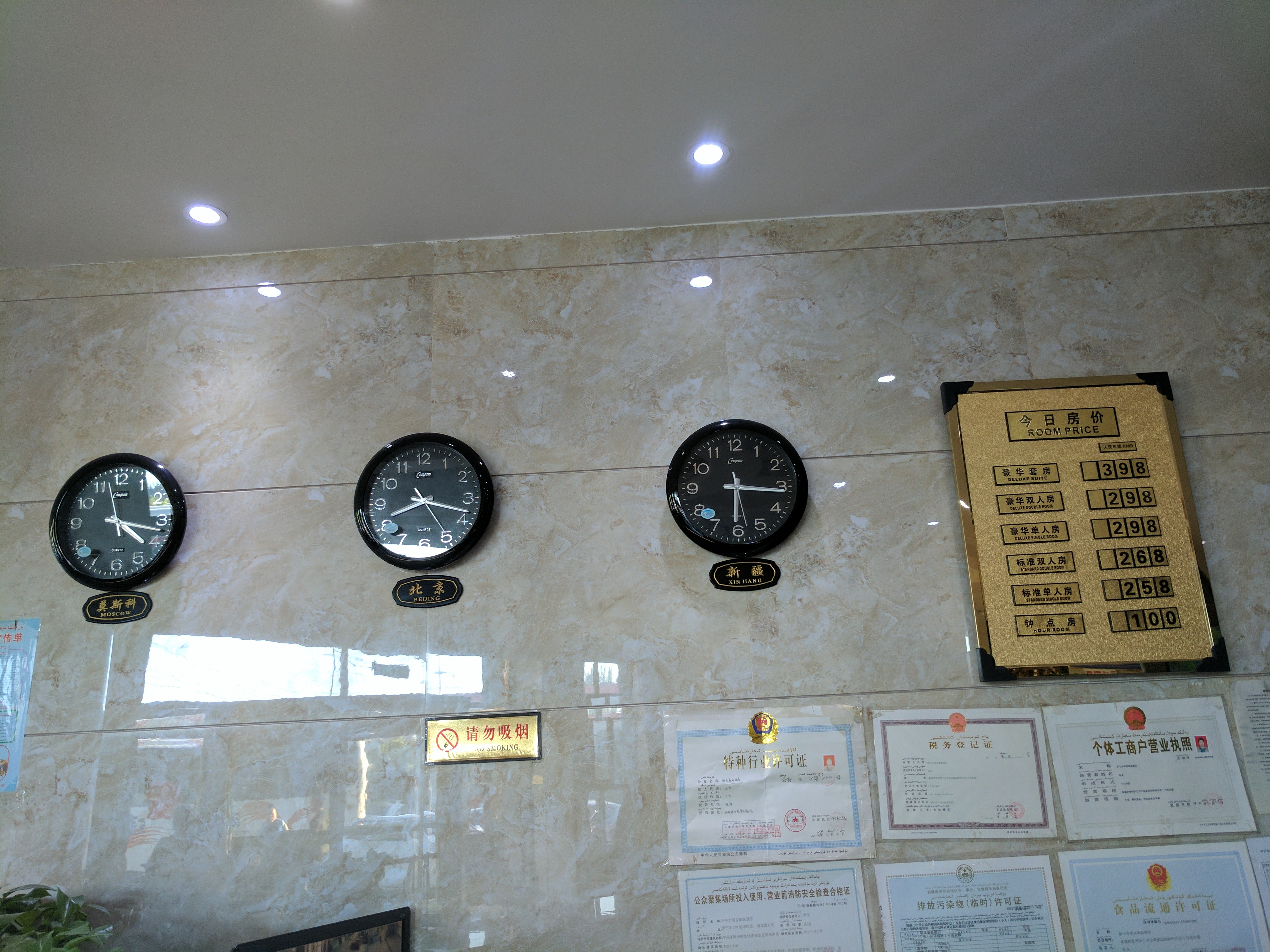 Hotel clocks in Xinjiang 中文（中国大陆）: 新疆酒店时钟